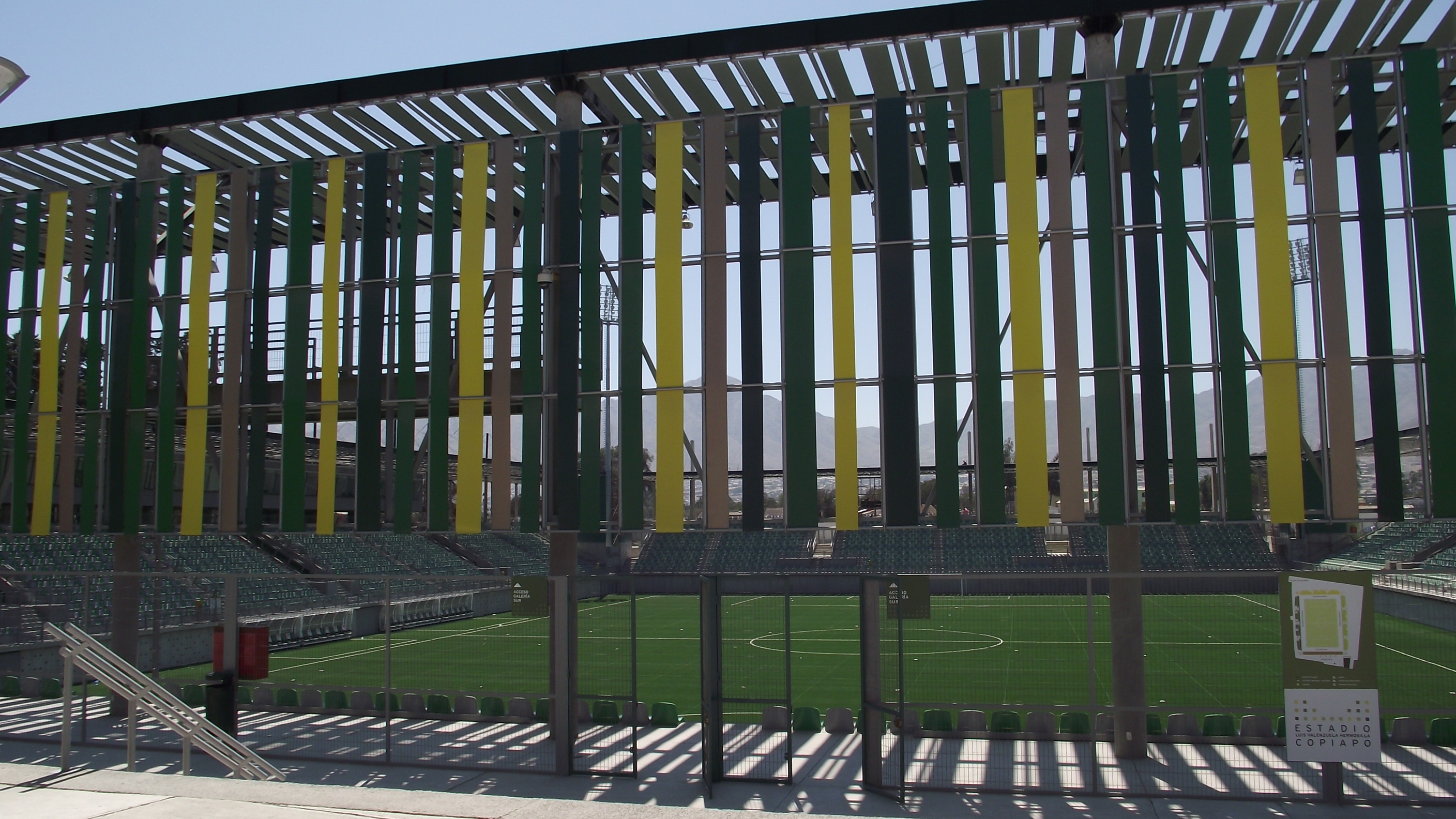 Luis Valenzuela Hermosilla Stadium, Copiapó, Chile.